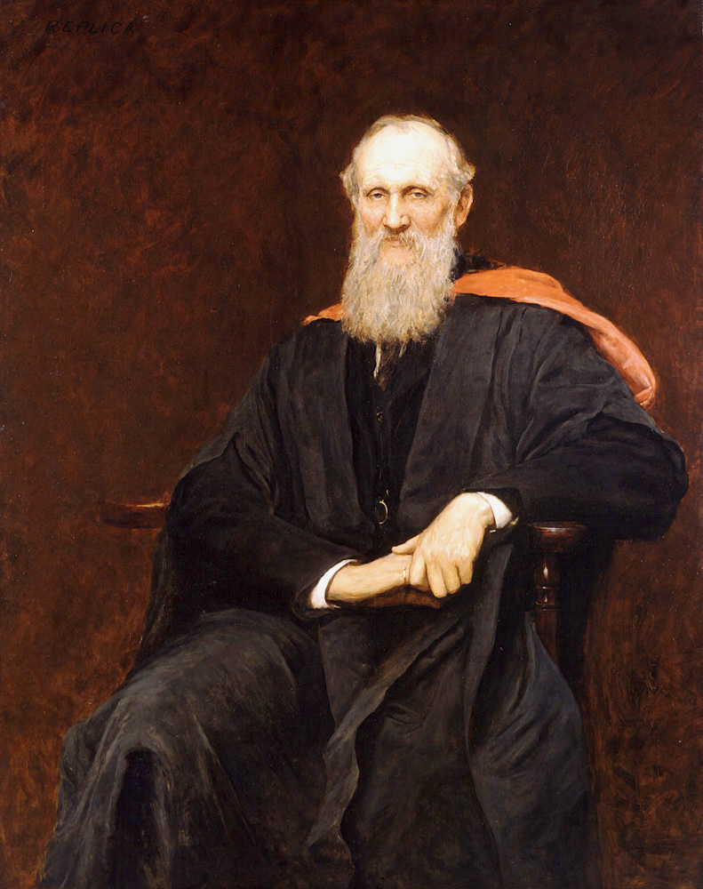 Portrait of Lord Kelvin (1824-1907)